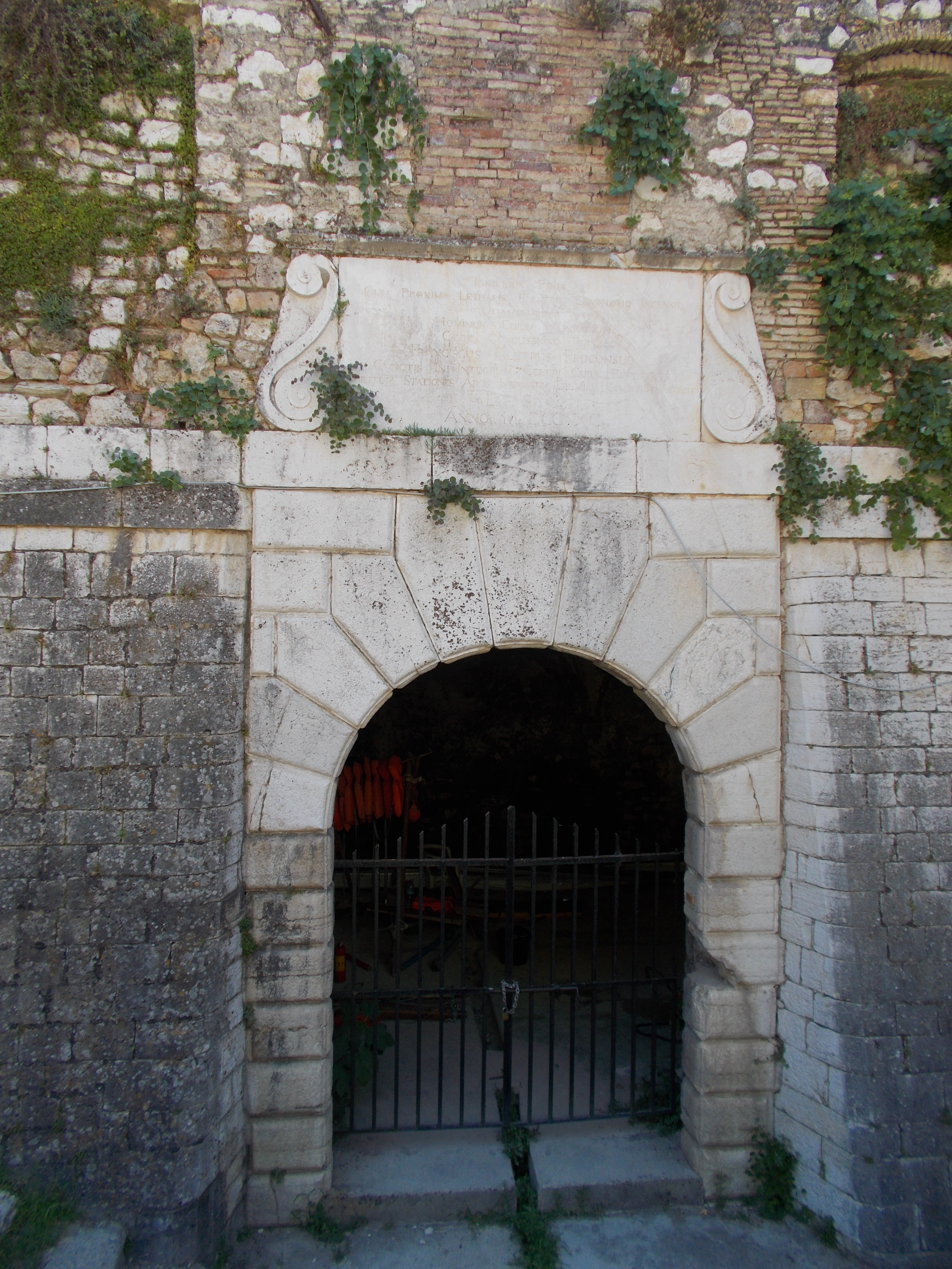 "Explosion inscription at Palaio Frourio in Corfu "IGNIFERIS PILIS CUM PROXIMO LETHALIS PULVERIS CONDITORIO INCENSIS QUAMRI URIVA HOMINUM EDIUM MUNIMUM CEDE CONCUSSIONI RUINA FRANCISCUS FALETRUS PROCONSUL CUNCTIS INI INTEGRUM CELERI CURA RESTITUTIS MILITUM STATIONES ARCIS INGPRESSUM ET VIAM COMMODIUS REFECIT EX SC ANNO MDCCXC"